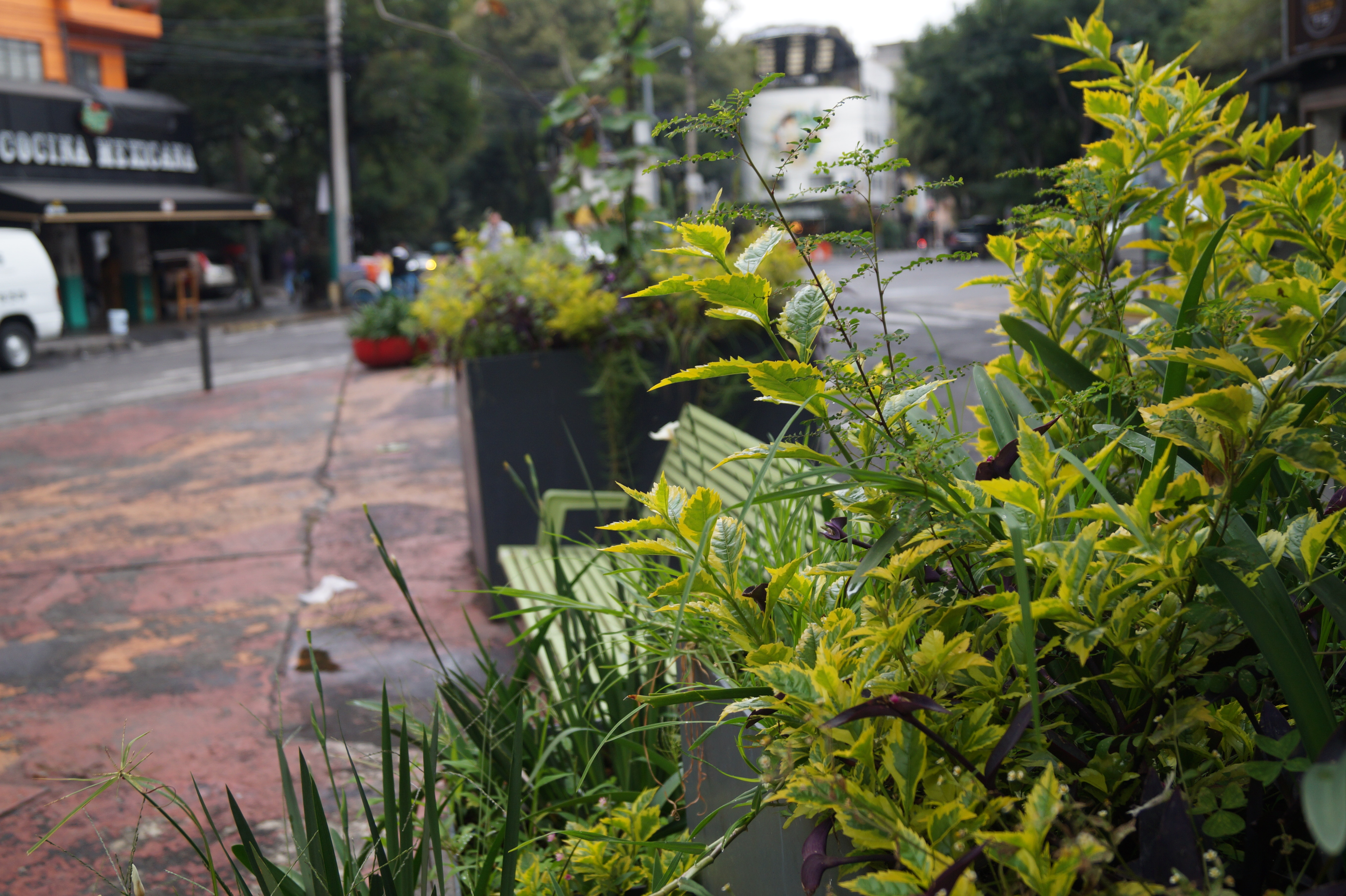 Free space for lounging in front of Michoacán Market, Colonia Condesa, Mexico.